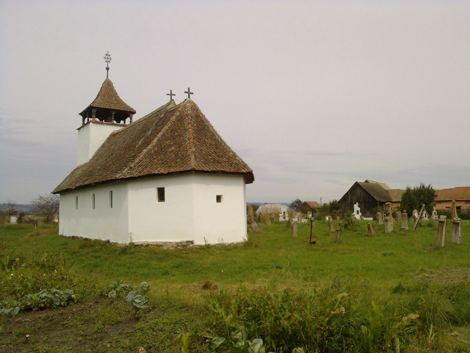 Chichis old Orthodox Church, Covasna County, Romania